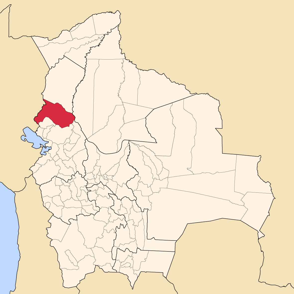 Map of Bolivia showing Franz Tamayo province, La Paz